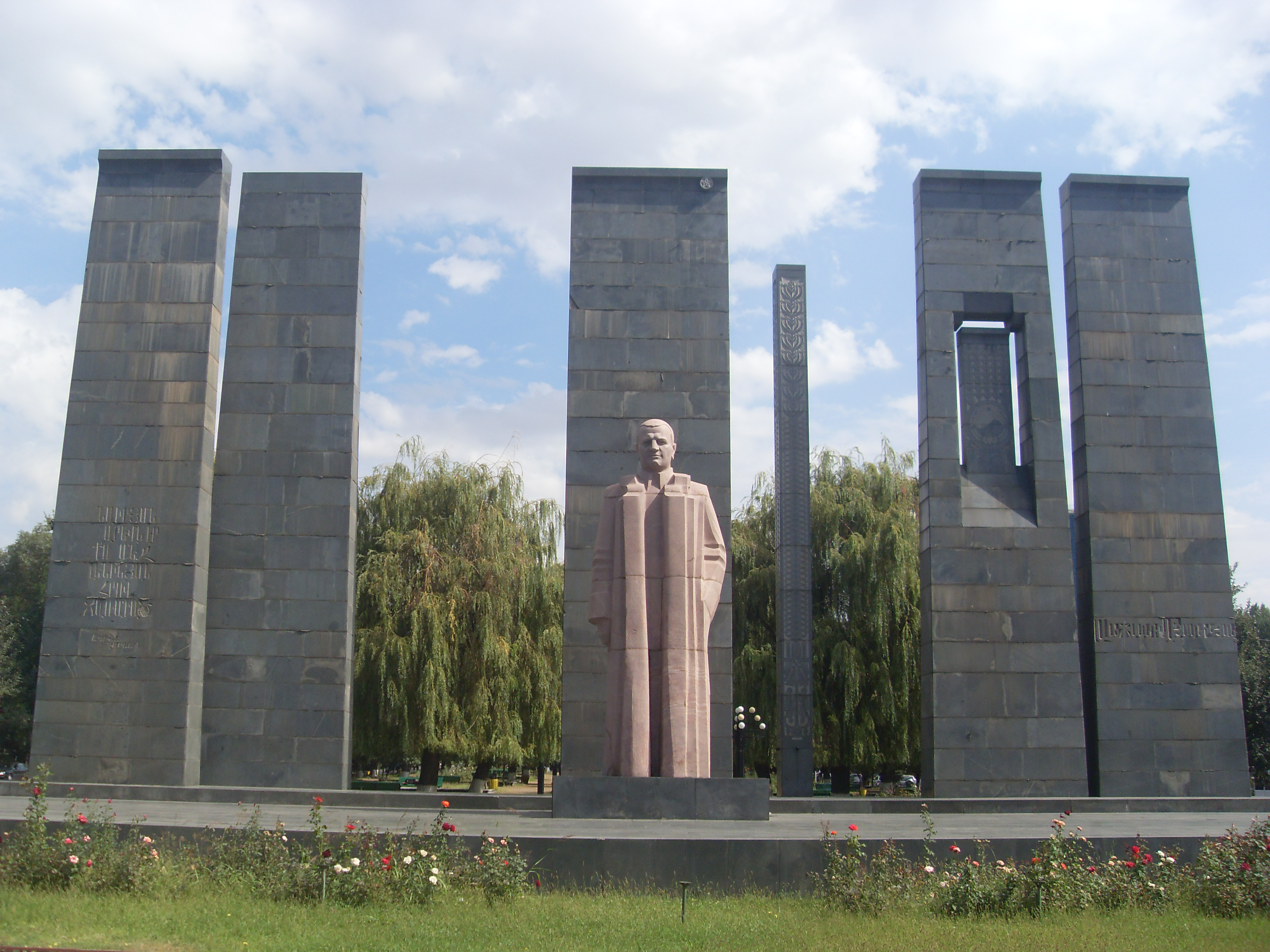 Statue of Alexander Myasnikyan, Yerevan, 1980, archit. Jim Torosyan, sculp. Ara Shiraz 6/131